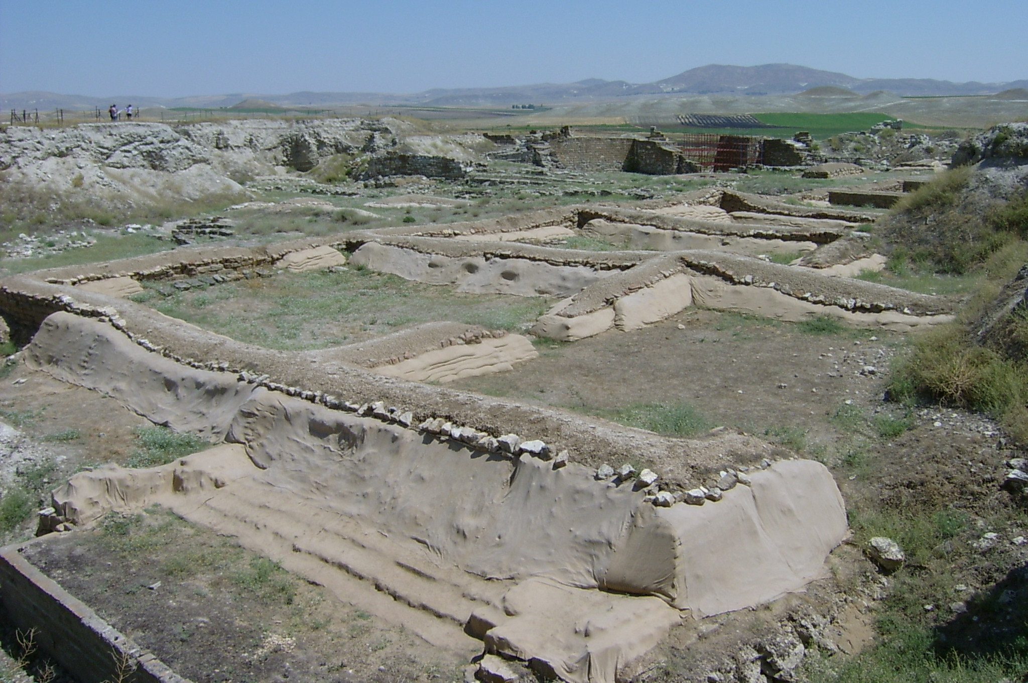 Ruins of Gordion, capital of ancient Phrygia